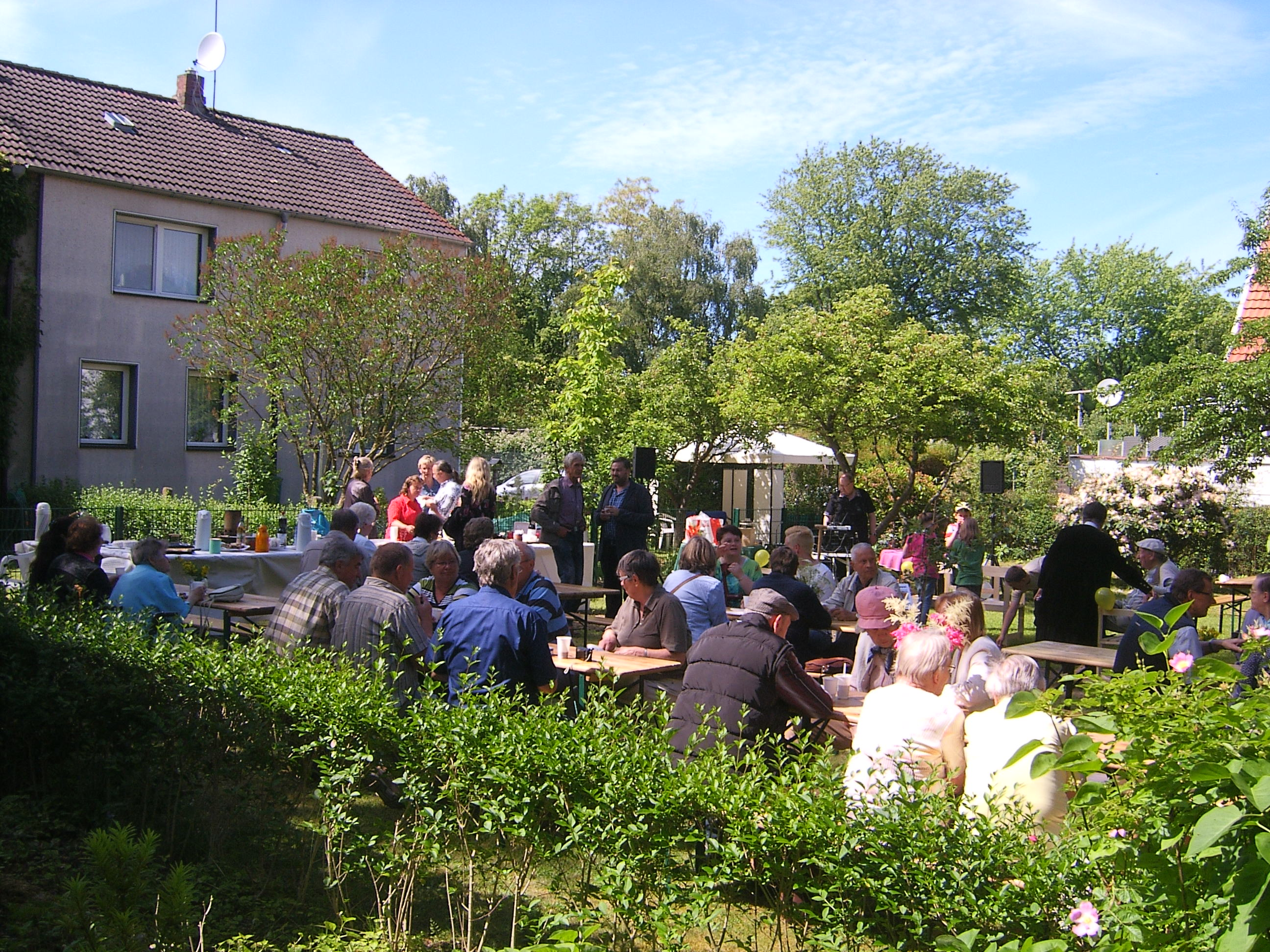 Summer festivity on Druwappelplatz to 95th anniversary of settlement.